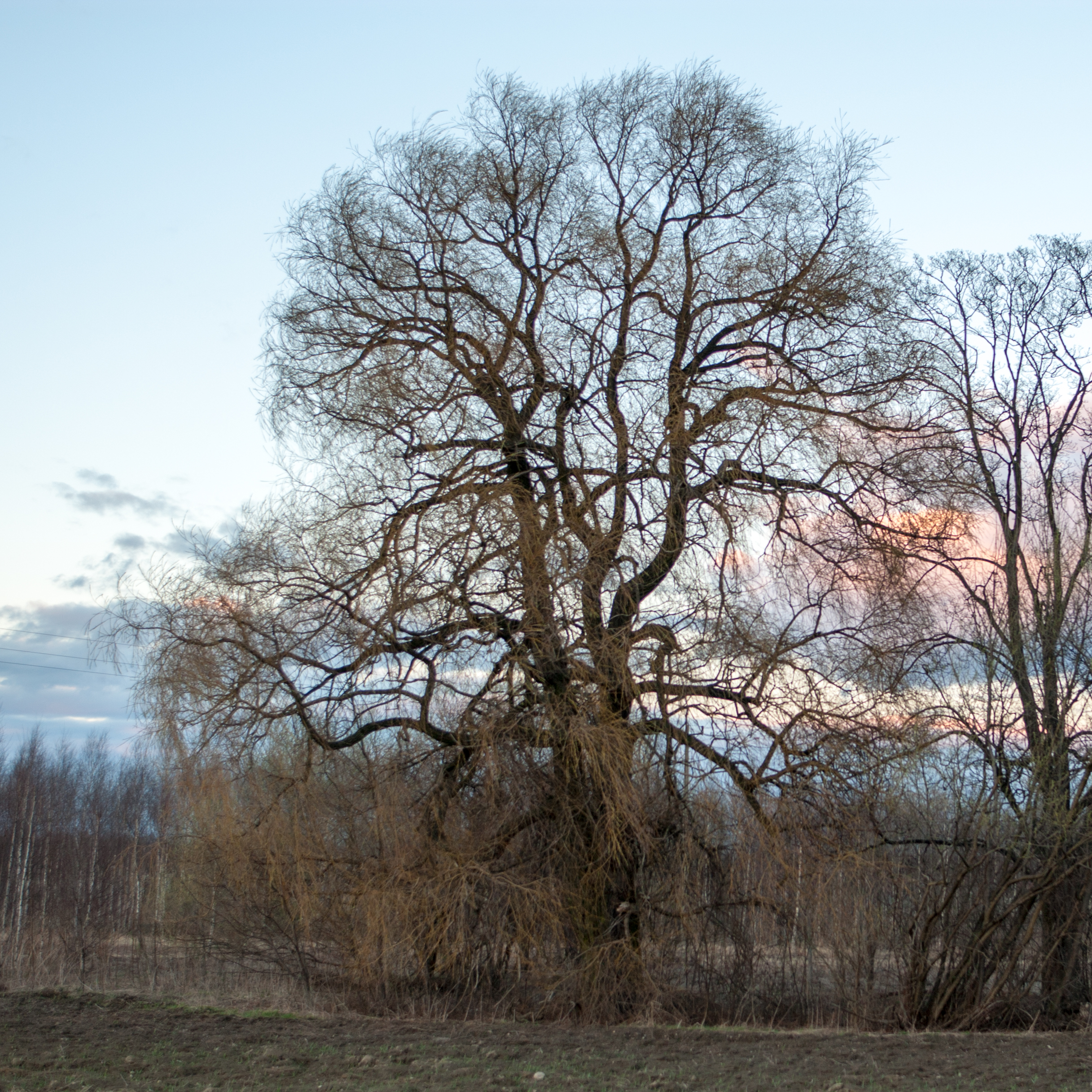 The crack willow, Lodz(Poland)